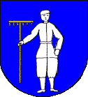 Frelichów COA